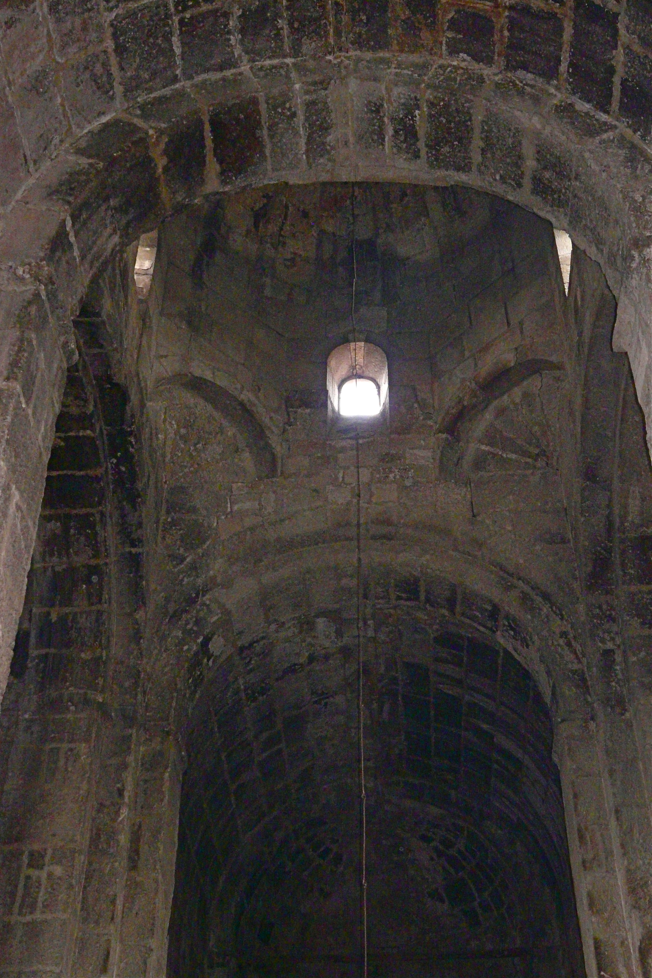 Odzun basilica, Armenia.